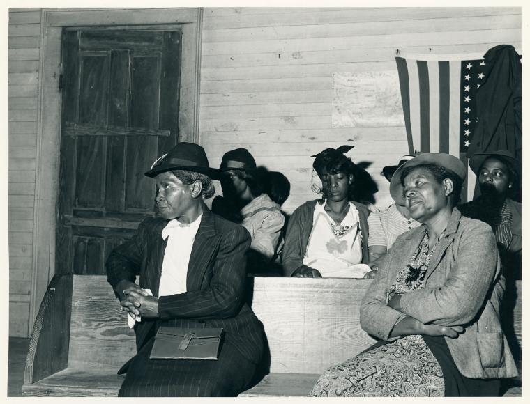 Digital ID: 1260068. During the church service at a Negro church in Heard County, Georgia, April 1941.. Delano, Jack -- Photographer. April 1941 Notes: Original negative #: 43933-D; Schomburg copy negative #: SC-CN-87-0425 (SC-CN-89-0018?) Source: Farm Security Administration Collection. / Georgia. / Jack Delano. (more info) Repository: The New York Public Library. Schomburg Center for Research in Black Culture. Photographs and Prints Division. See more information about this image and others at NYPL Digital Gallery. Persistent URL: Rights Info: No known copyright restrictions; may be subject to third party rights (for more information, click here)